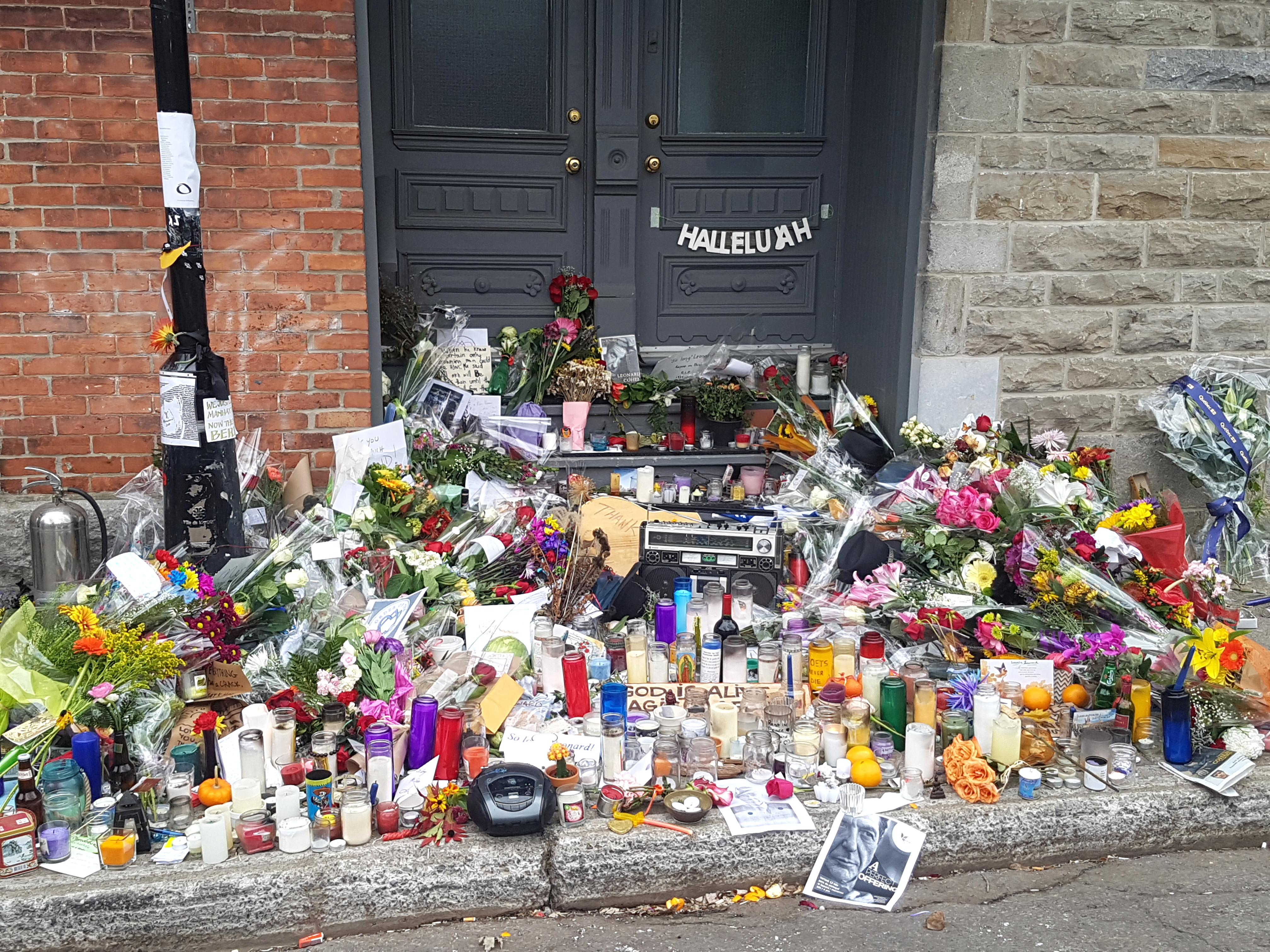 Makeshift memorial for singer, songwriter, poet and local saint Leonard Cohen in front of his former residence at 28 rue Vallières in Montreal, 12 November 2016.